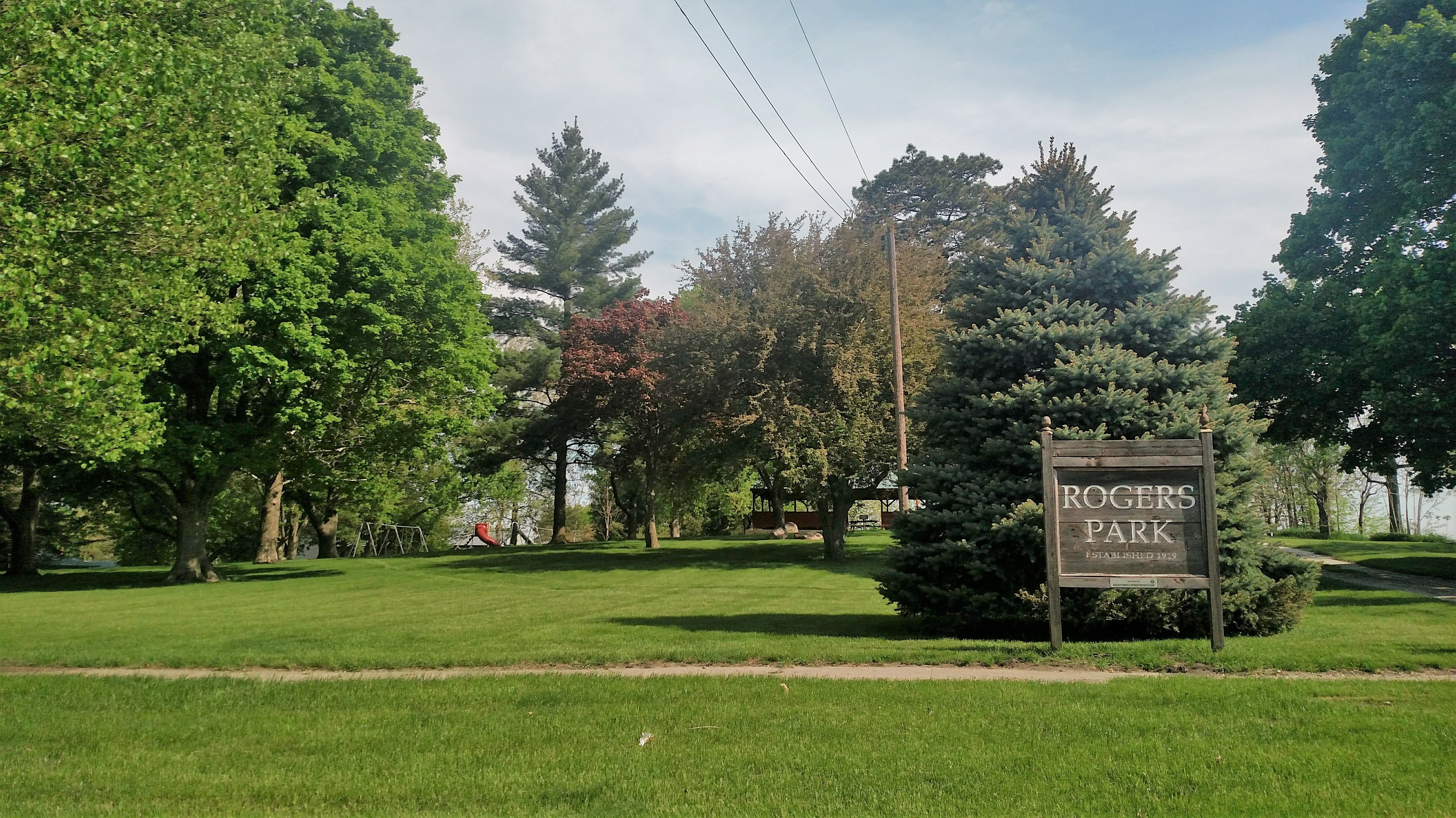 Rogers Park in Minburn, Iowa